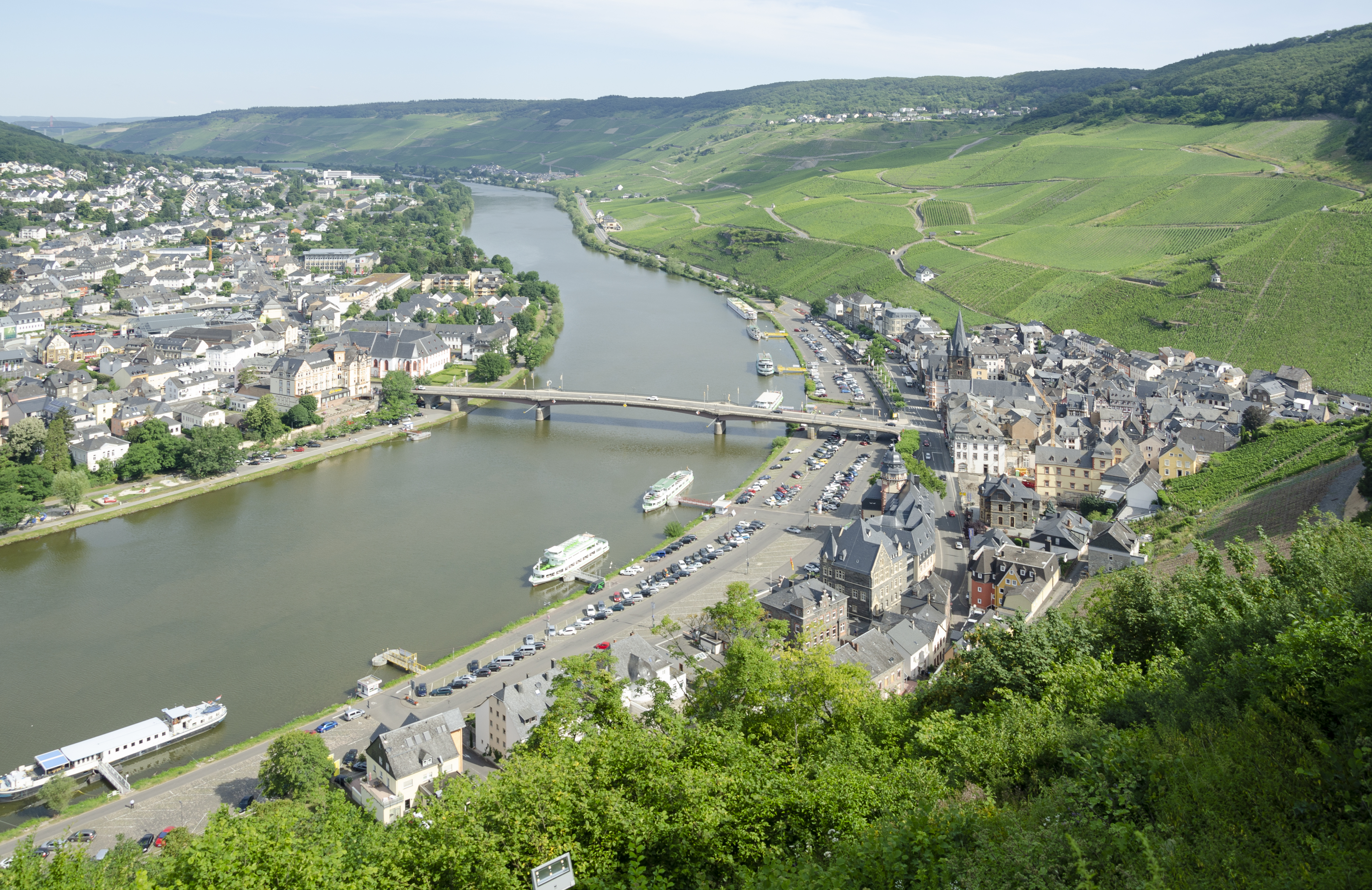 Bernkastel-Kues, Germany, seen from the castle (Burg Landshut).